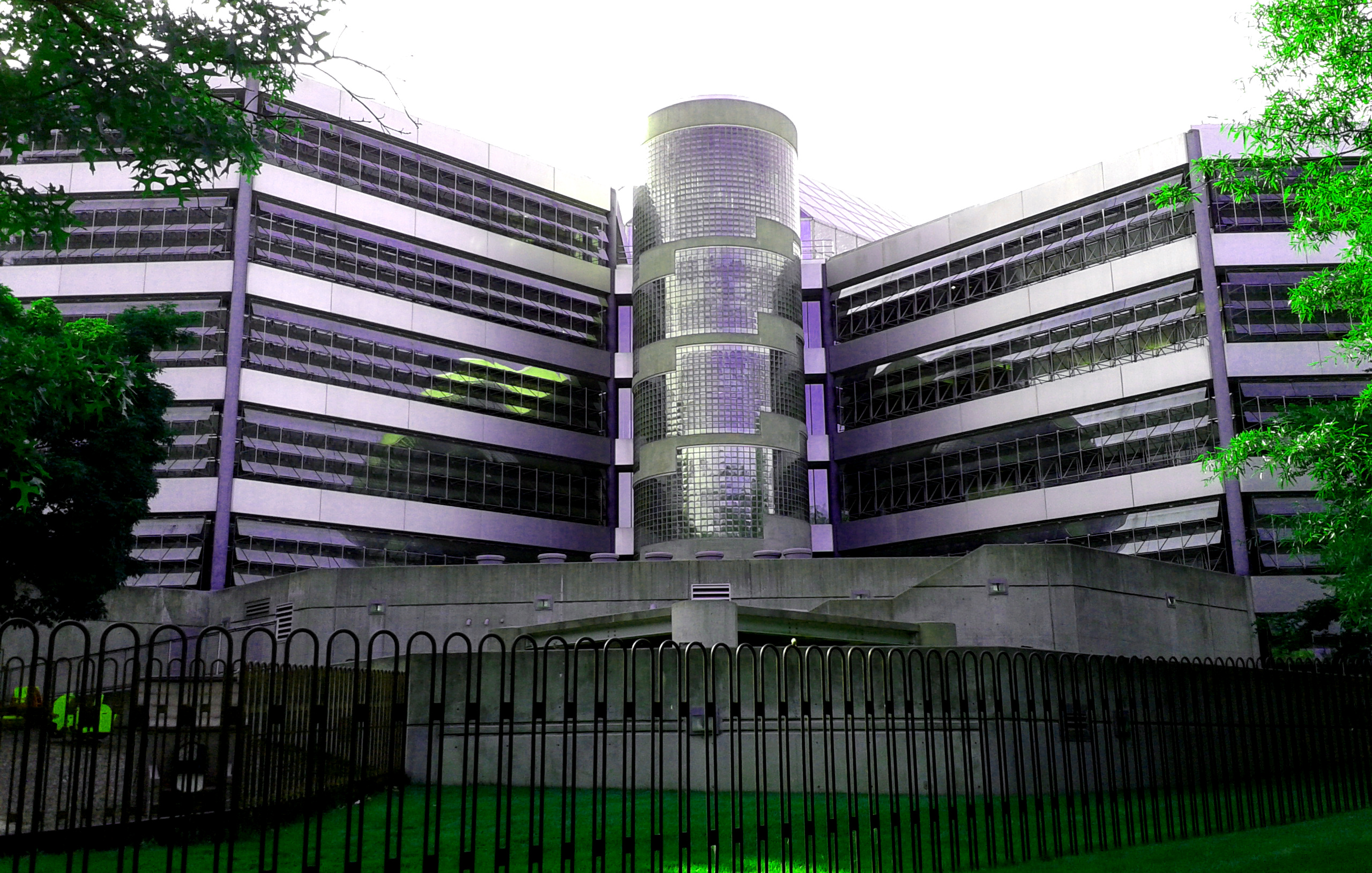 A view of a pod intersection at an atrium in the Intelsat's headquarters in Washington, DC.